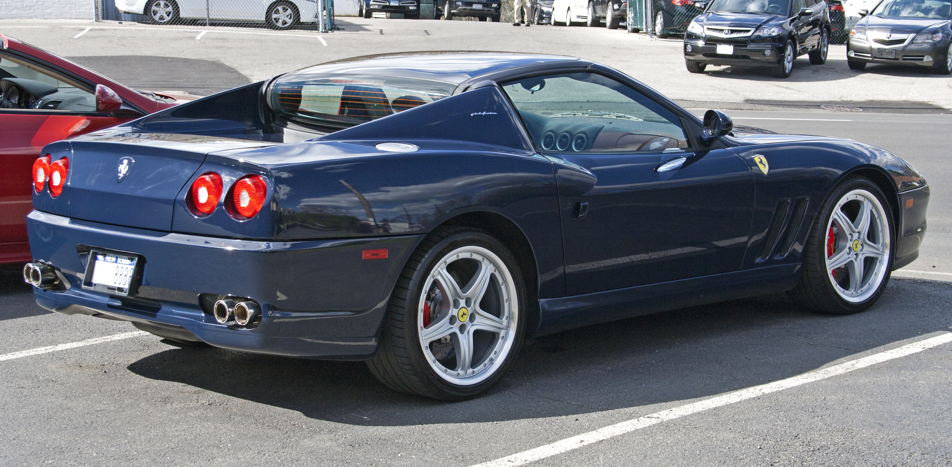 Rear view of Ferrari 575 Superamerica, unusual in dark blue.